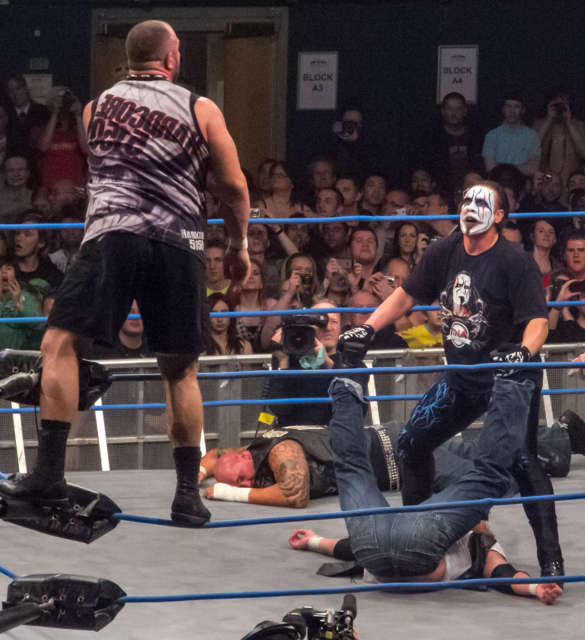 Bully Ray and Sting take on Aces & Eights at the Impact! TV Tapings in Wembley, England on January 26, 2013.